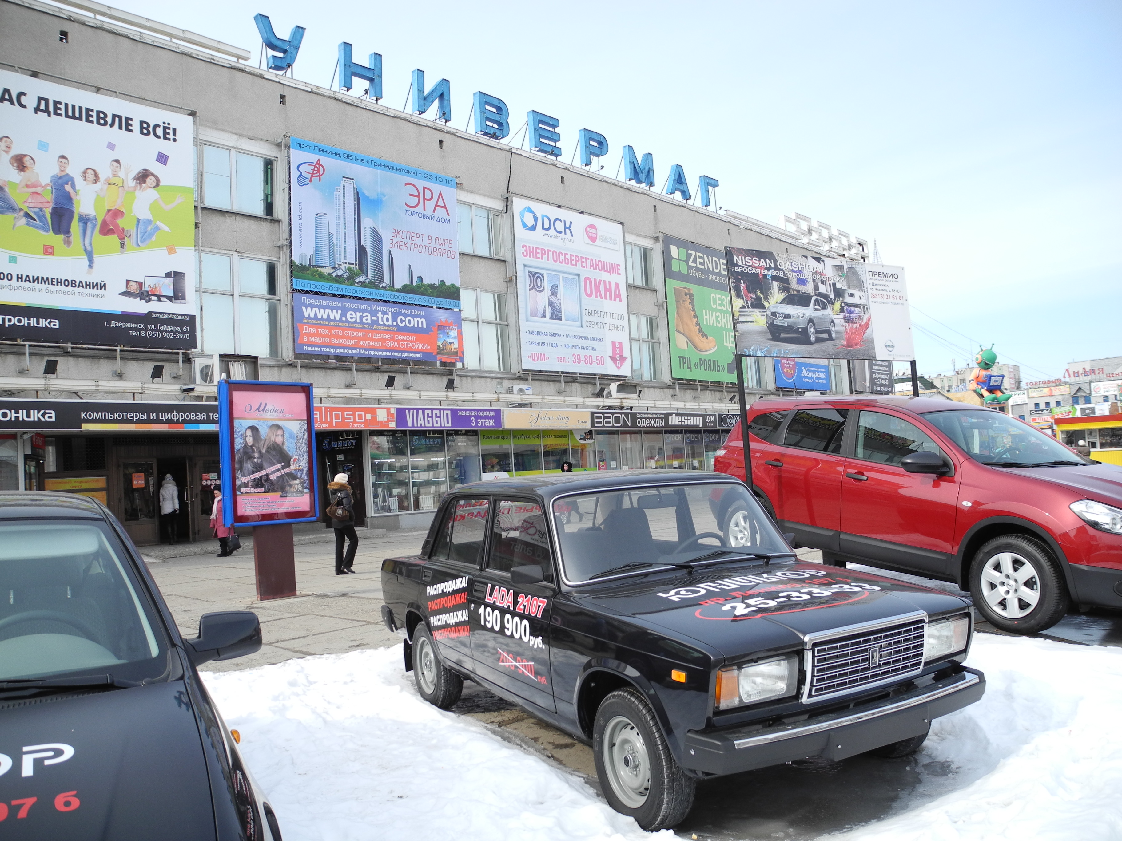 Lada Nova, new car, sold in the last year of production (2012) for 190.900 rubel